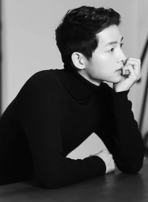 [FORENCOS] 송중기 포렌코즈 F/W 메이킹 필름 대공개!!